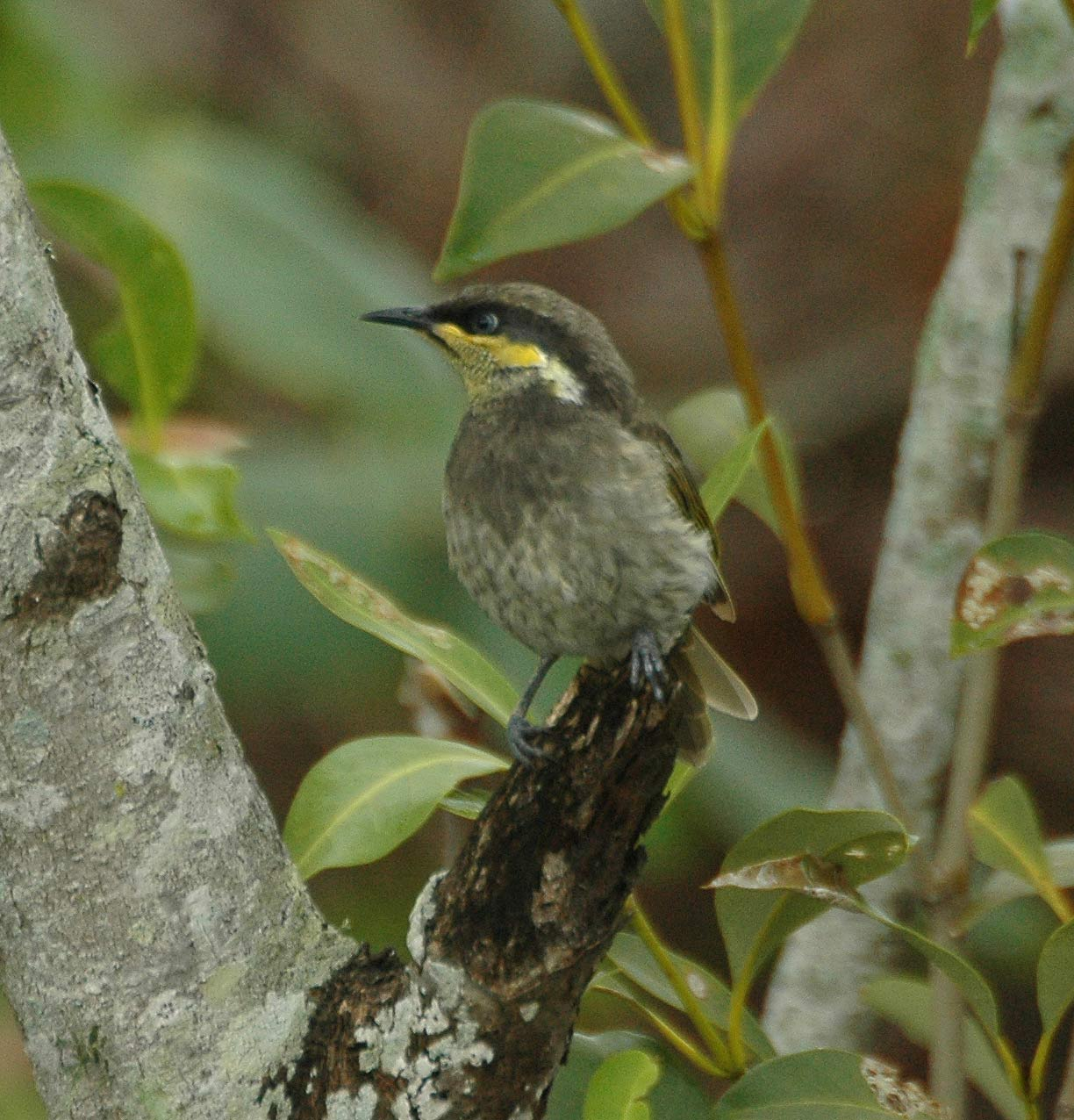 Mangrove Honeyeater (Lichenostomus fasciogularis) Deception Bay, Se Queensland, Australia